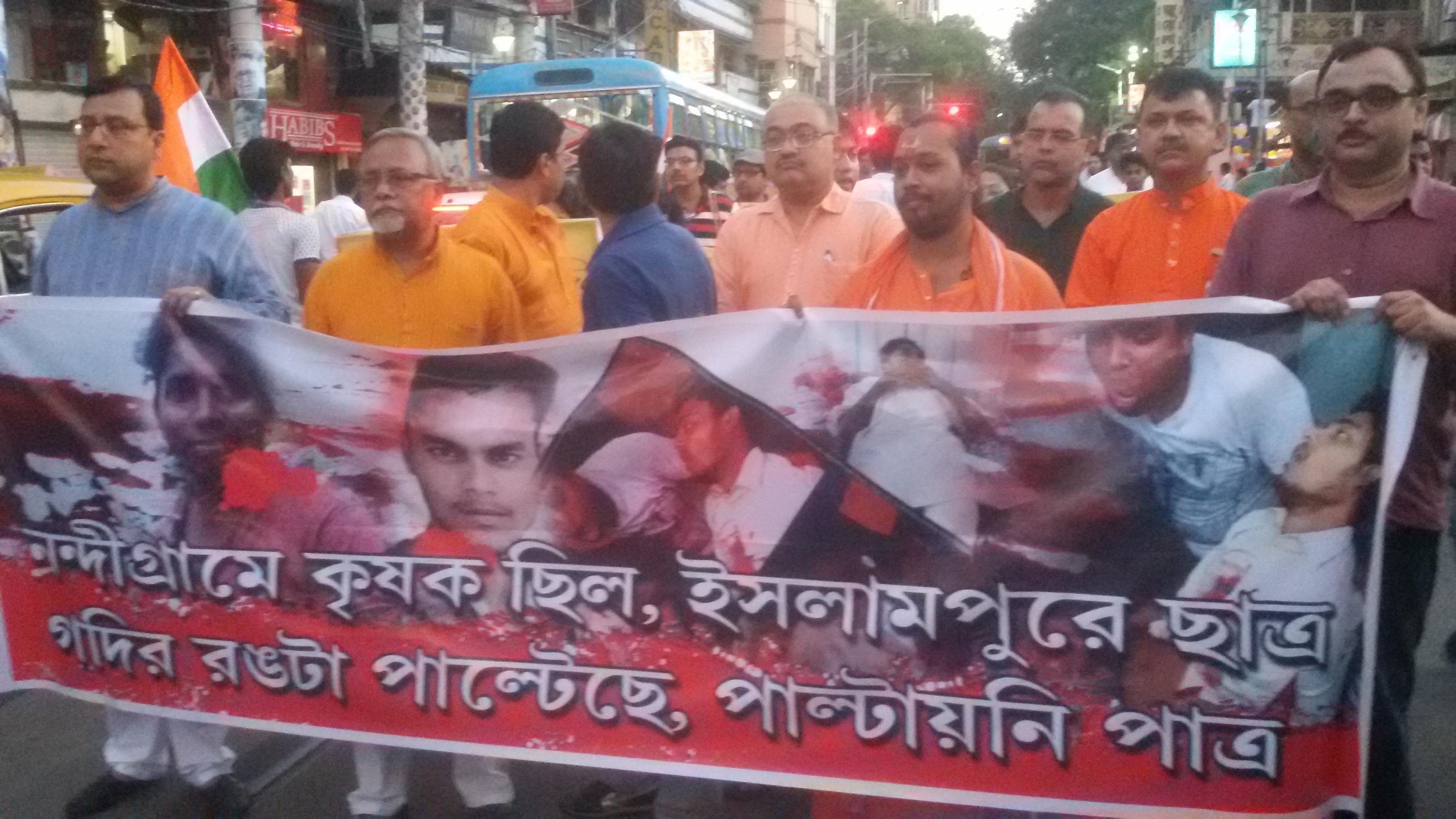 Citizens of Kolkata in a march, protesting the police firing on protesting students at Daribhit High School in Islampur, Uttar Dinajpur District, West Bengal that resulted in two deaths.